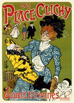 Advertising poster for À la Place Clichy department store by Misti